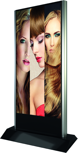 Digital Signage